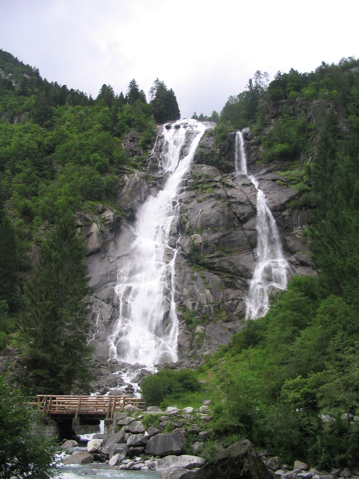 Nardis waterfalls